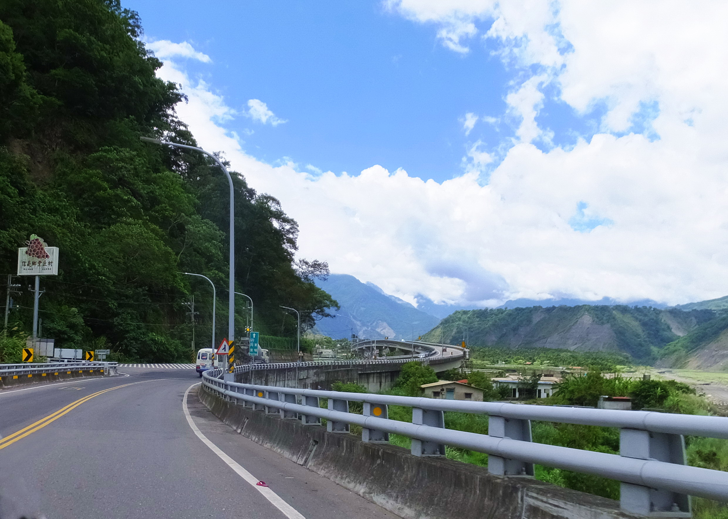 玉山景觀公路 Yushan Scenic Highway